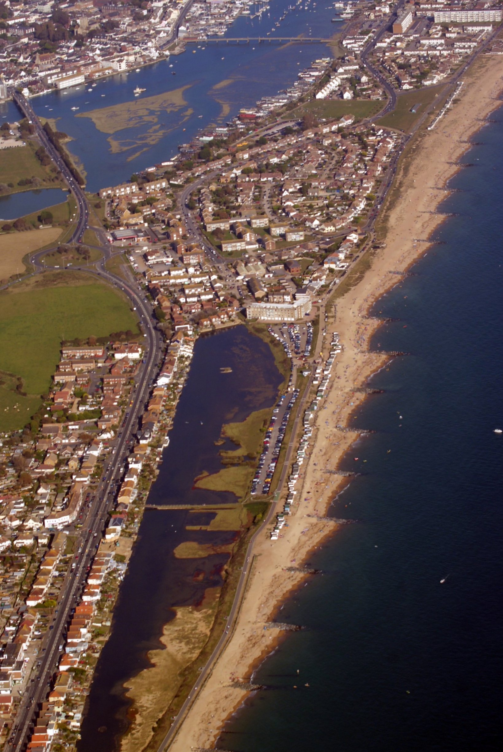 Shoreham-by-Sea, West Sussex, England.